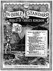 The Bible Standard And Herald of Christs Kingdom no.1 (December 1918)